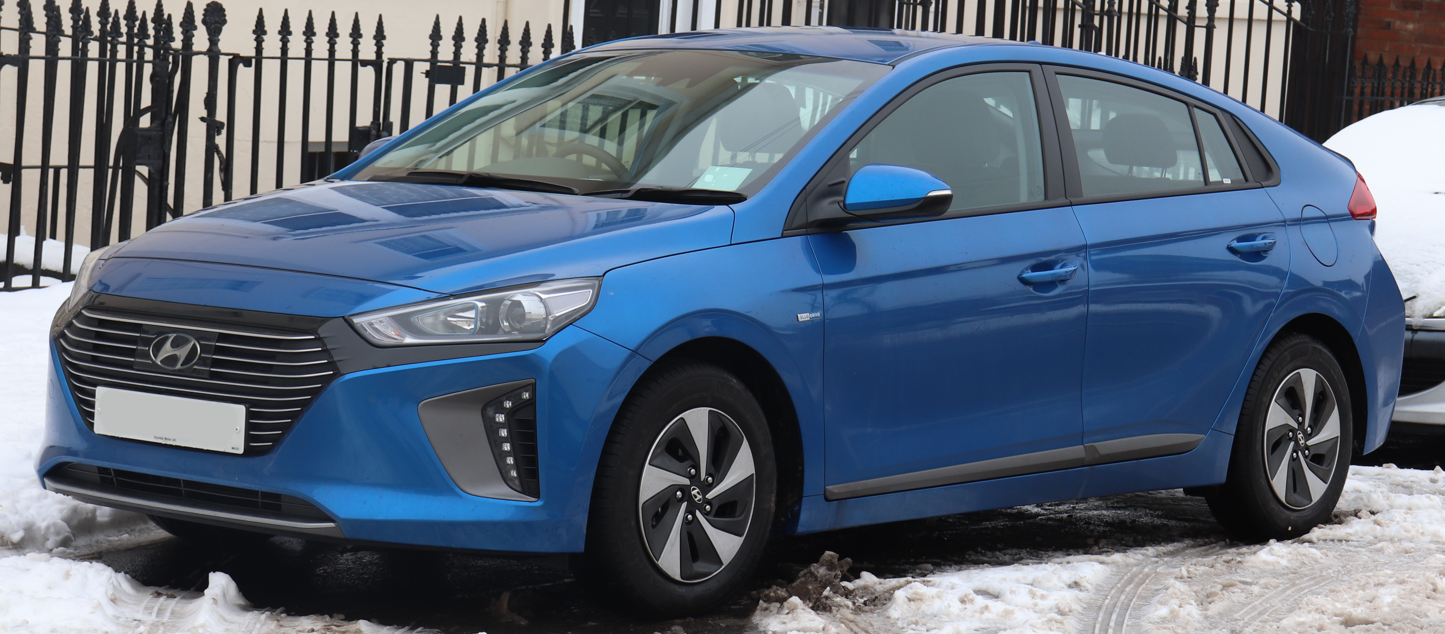 2018 Hyundai Ioniq SE HEV S-A 1.6 Front Taken in Leamington Spa